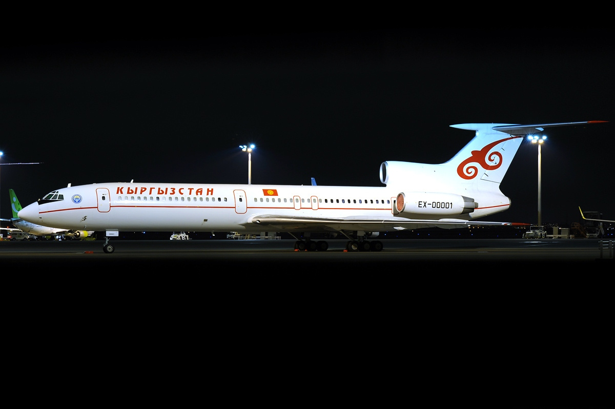 Almazbek Sharshenovich Atambayev (President of Kyrgyzstan) visited to Tokyo.